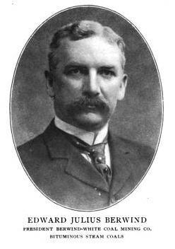 My copy from: Moses King, Notable New Yorkers of 1896-1899: a companion volume to King's handbook of New York City (M. King, 1899), pg. 430